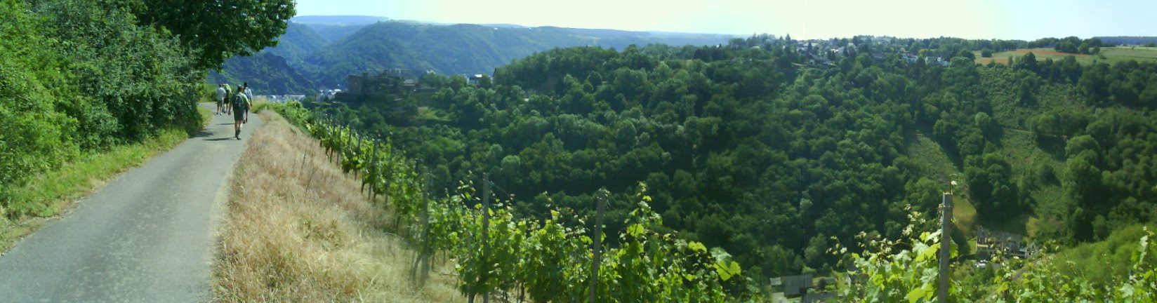 View of Rheinfels castle and Gründelbachtal valley near Sankt Goar at the rhine river, Germany